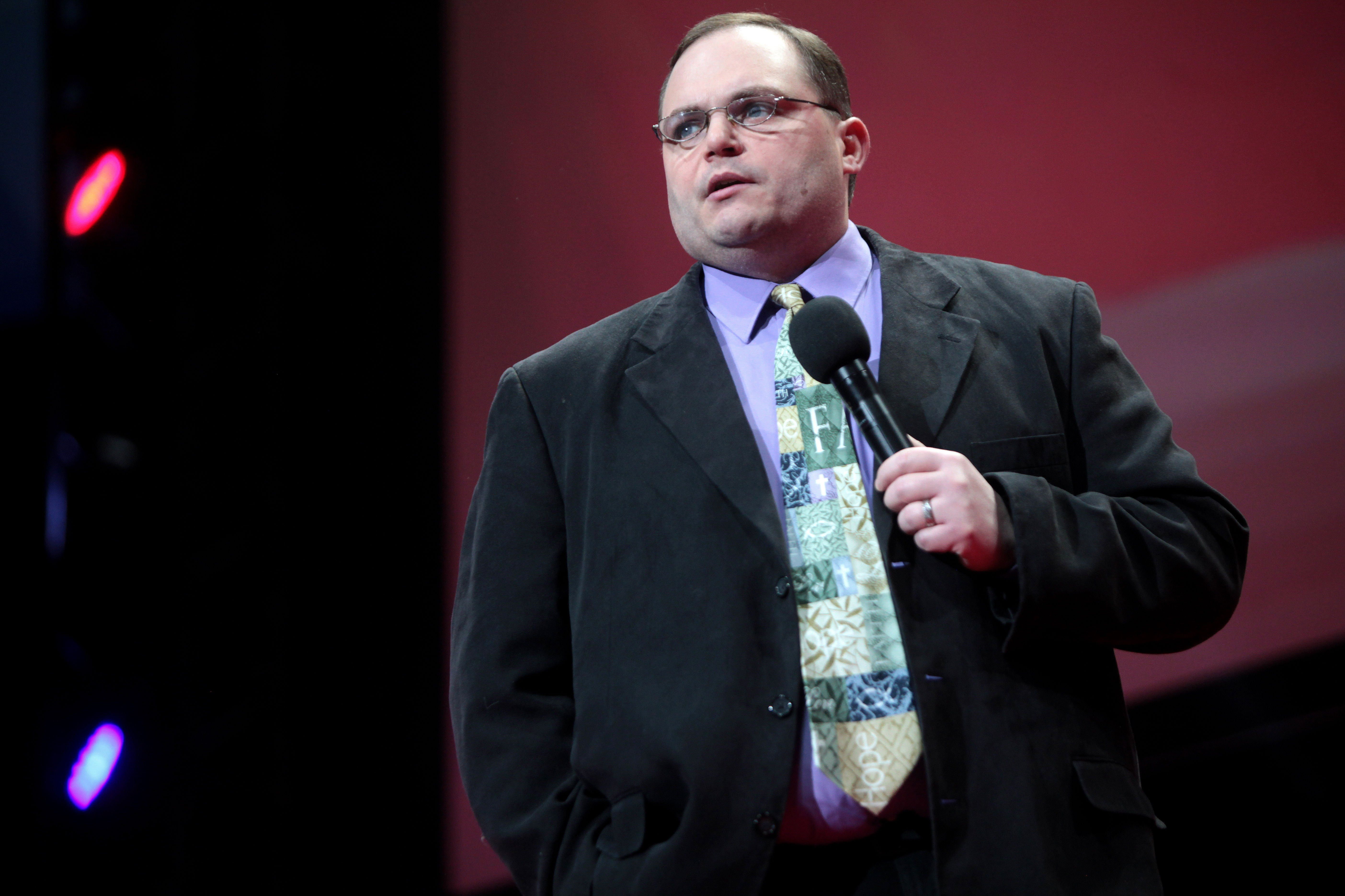 Steve Deace speaking at an event in Greenville, South Carolina.